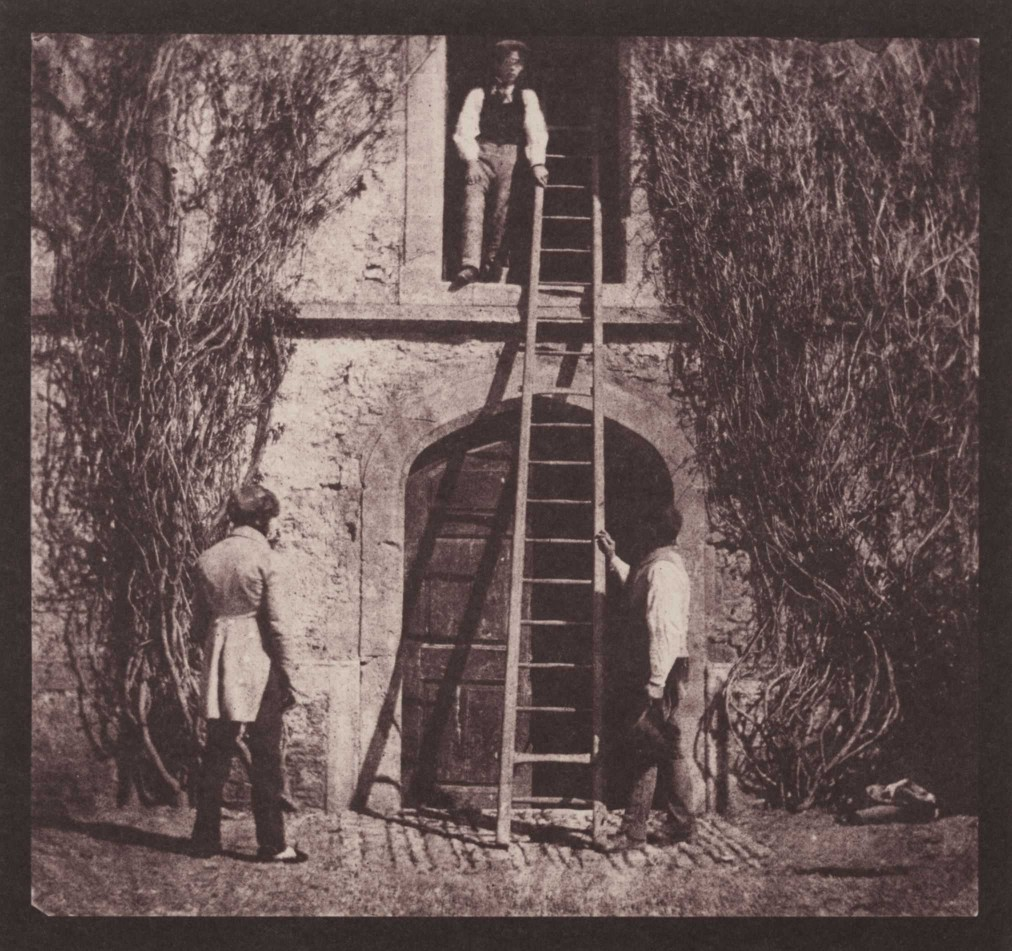 "The Ladder". A so called "Calotype", a kind of early photograph.